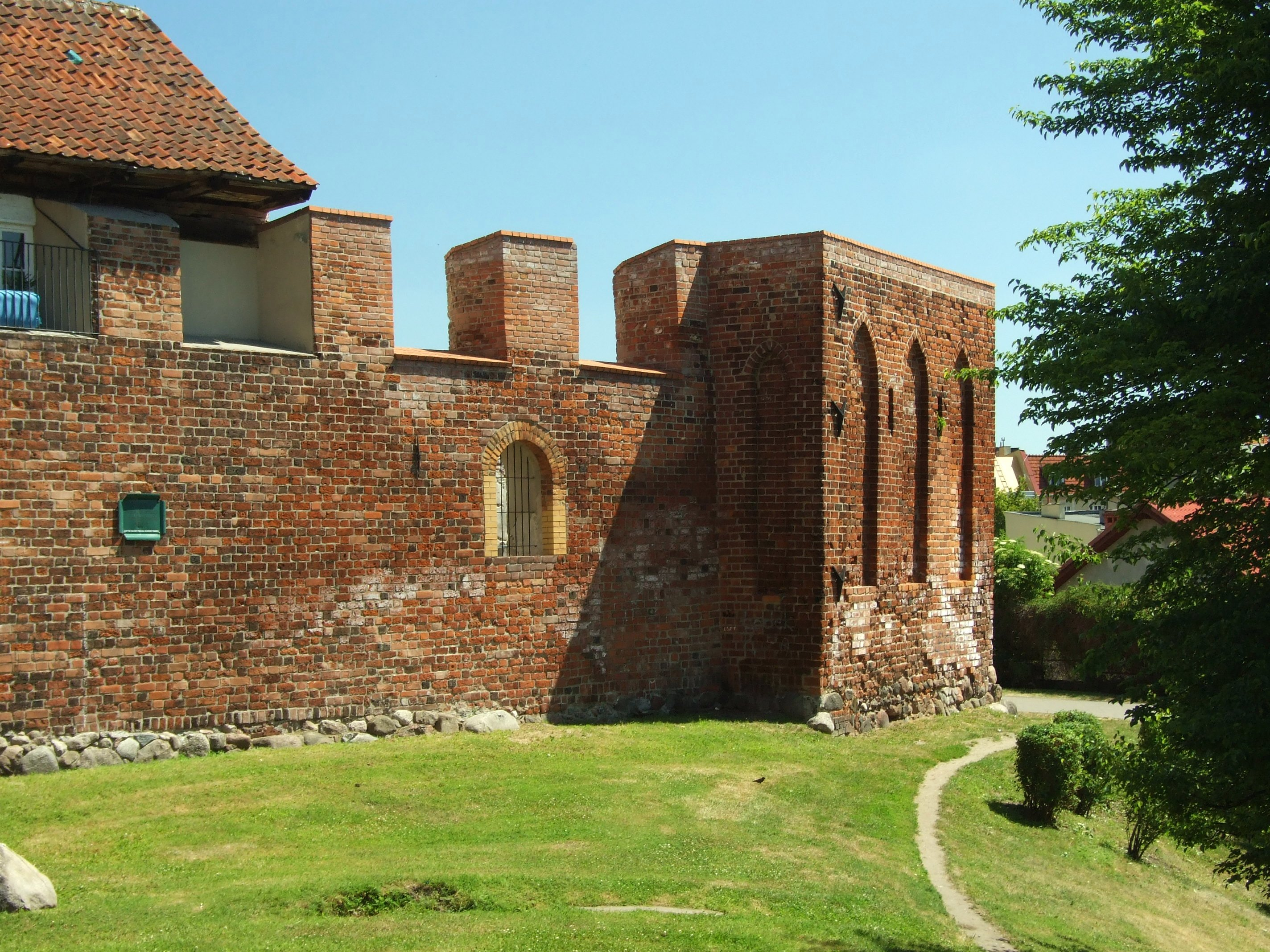 City walls remains near Tczew city centre, Poland